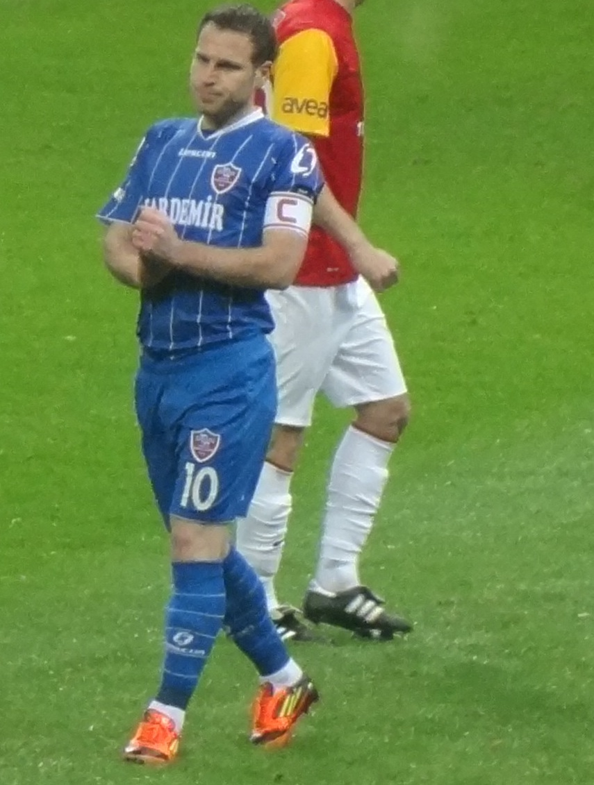 cernat vs galatasaray